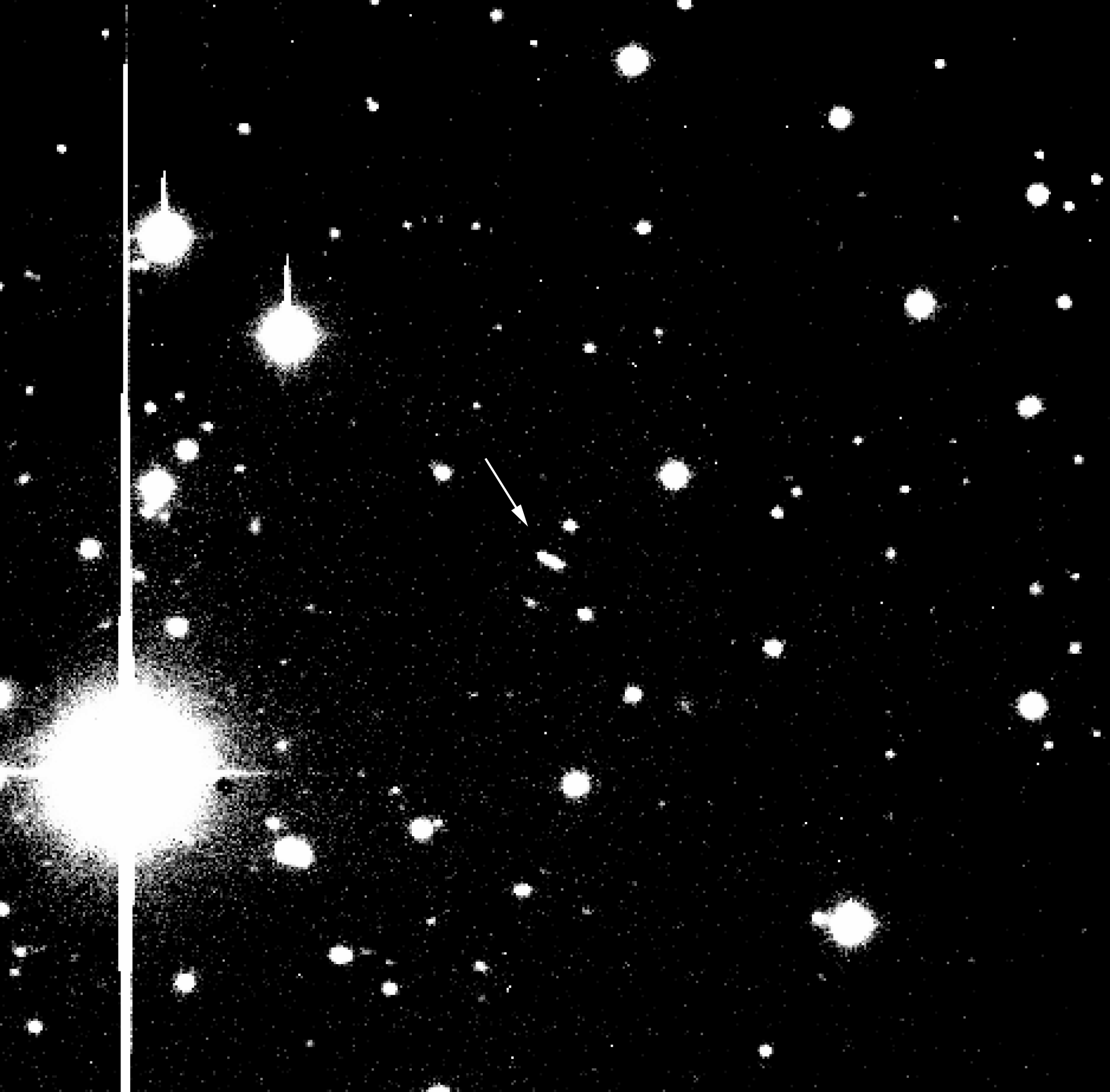 Image of Deep Space-1 spacecraft captured by 5-meter (200-inch) Hale telescope on Palomar Mountain at a distance of 3.7 million kilometers (2.3 million miles) from Earth.